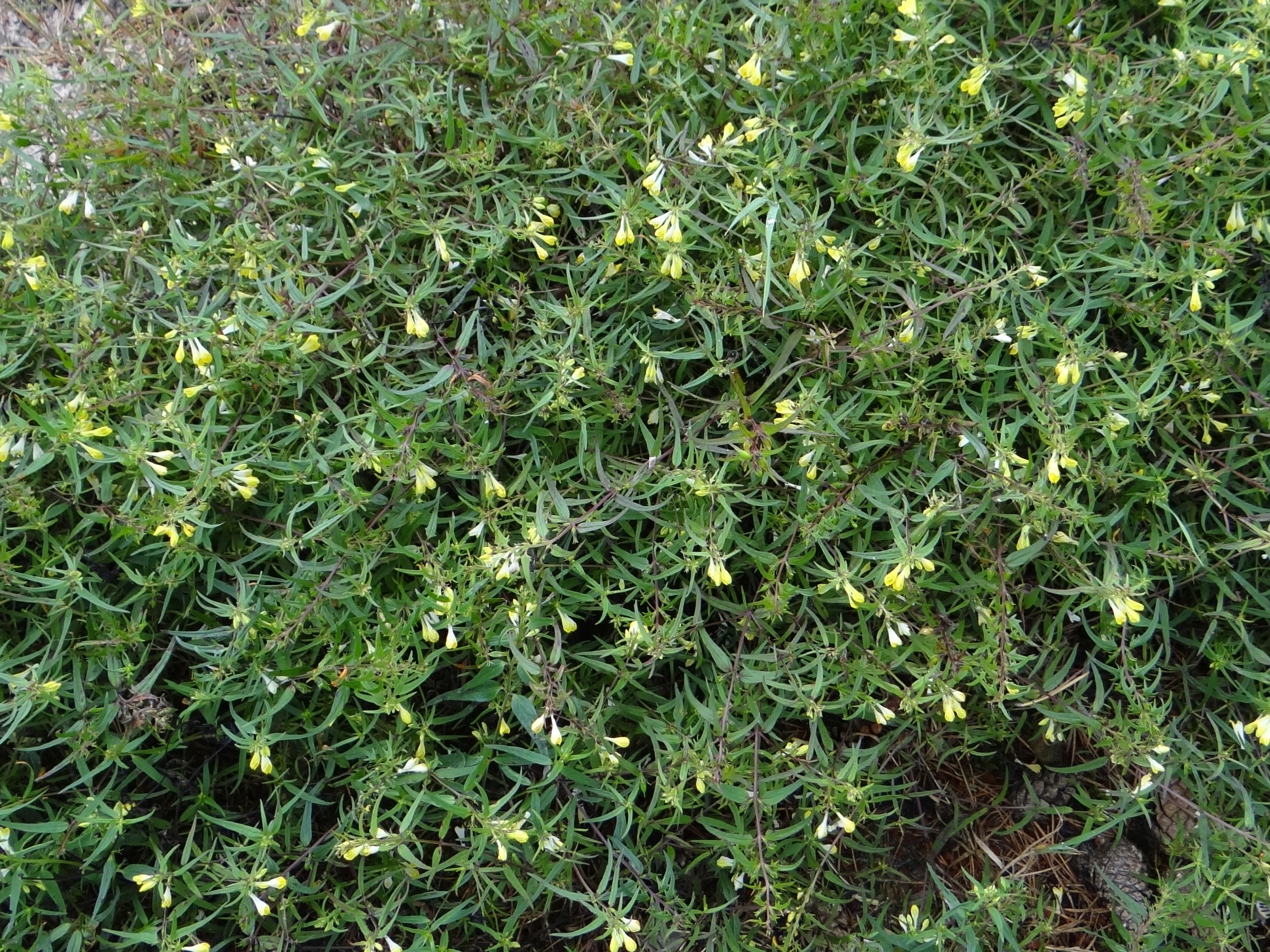 Melampyrum pratense (location: Poland, Hel)